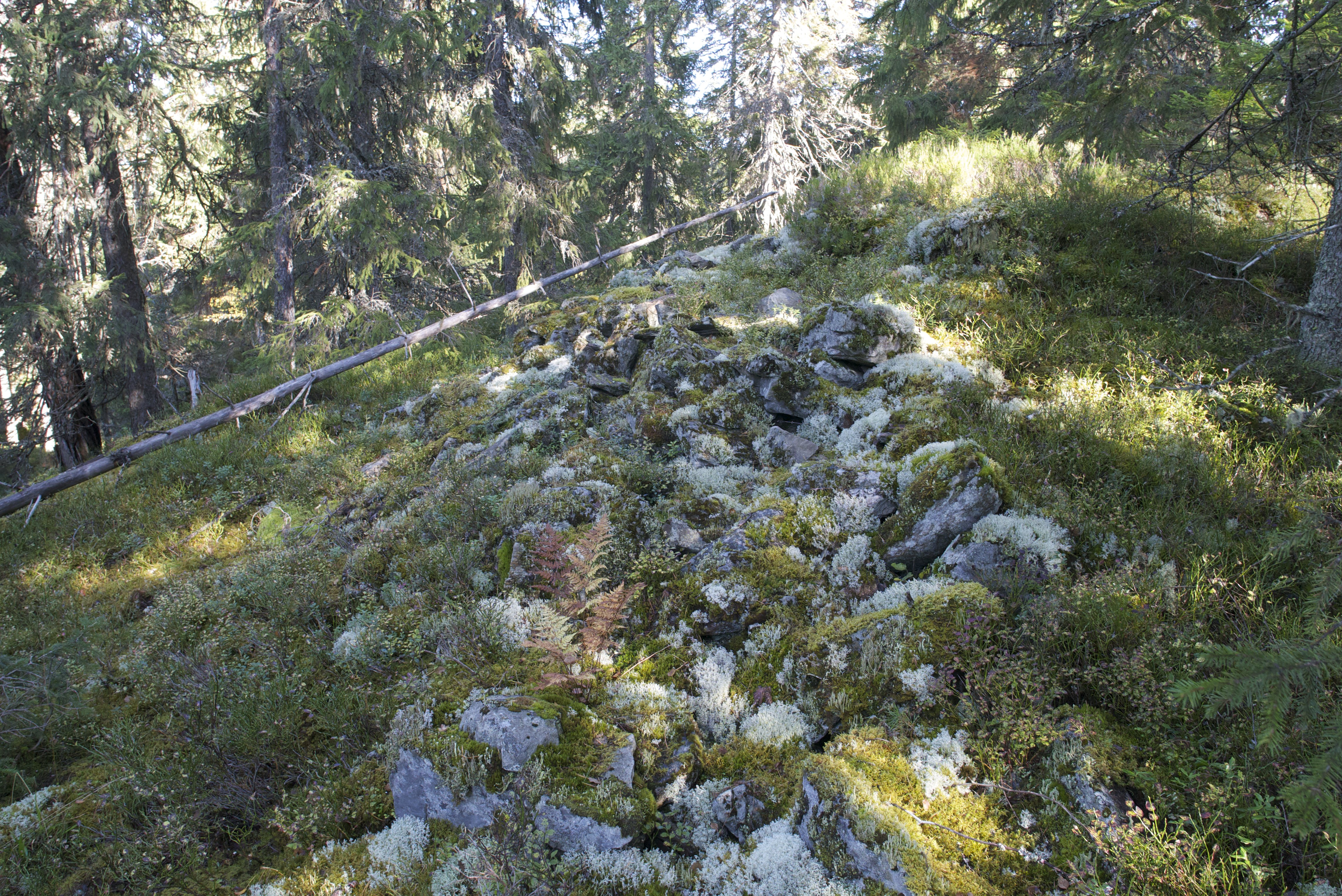 Iron age defense structure in Skedsmo, Norway